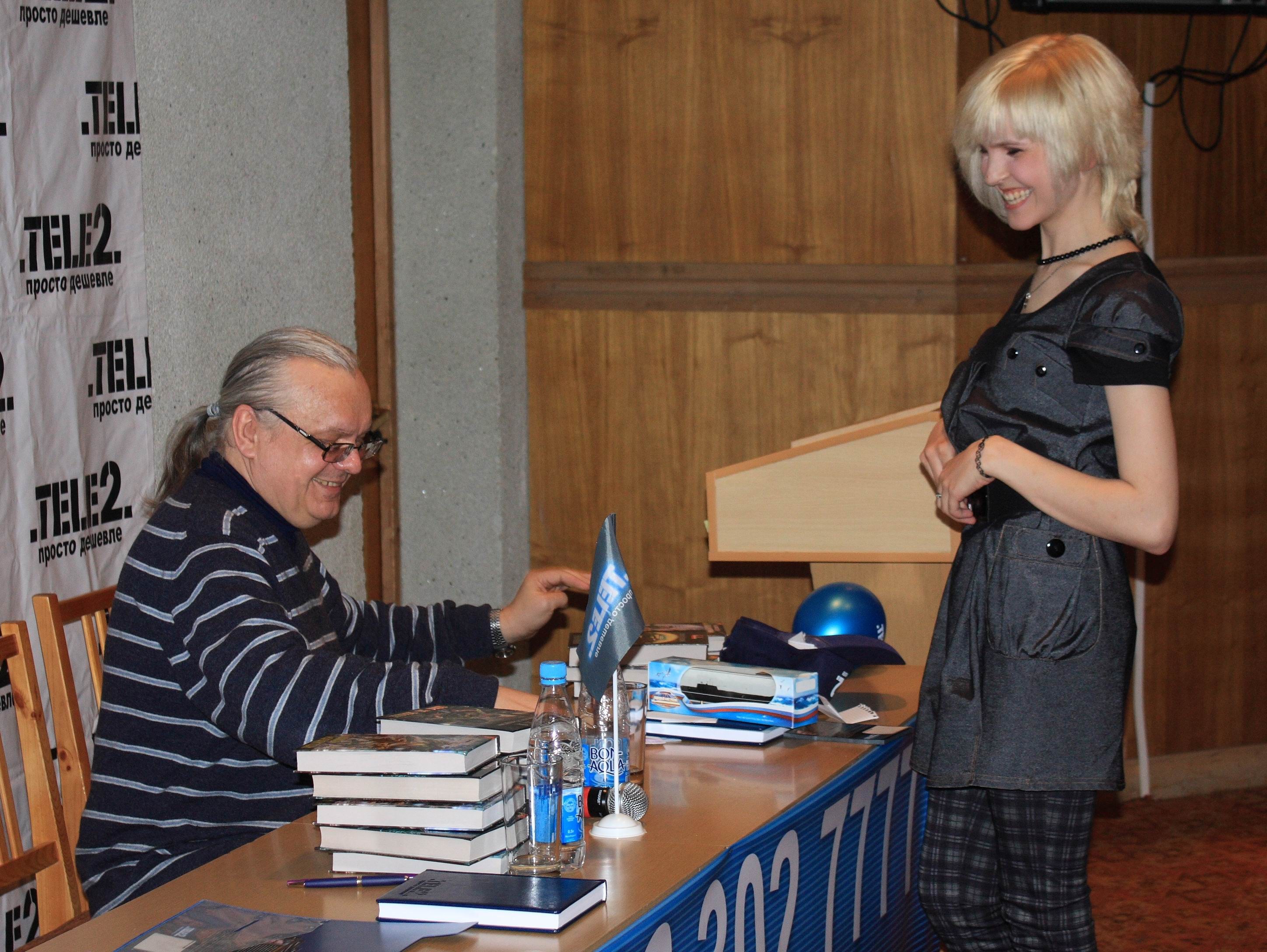 Kalugin Aleksei